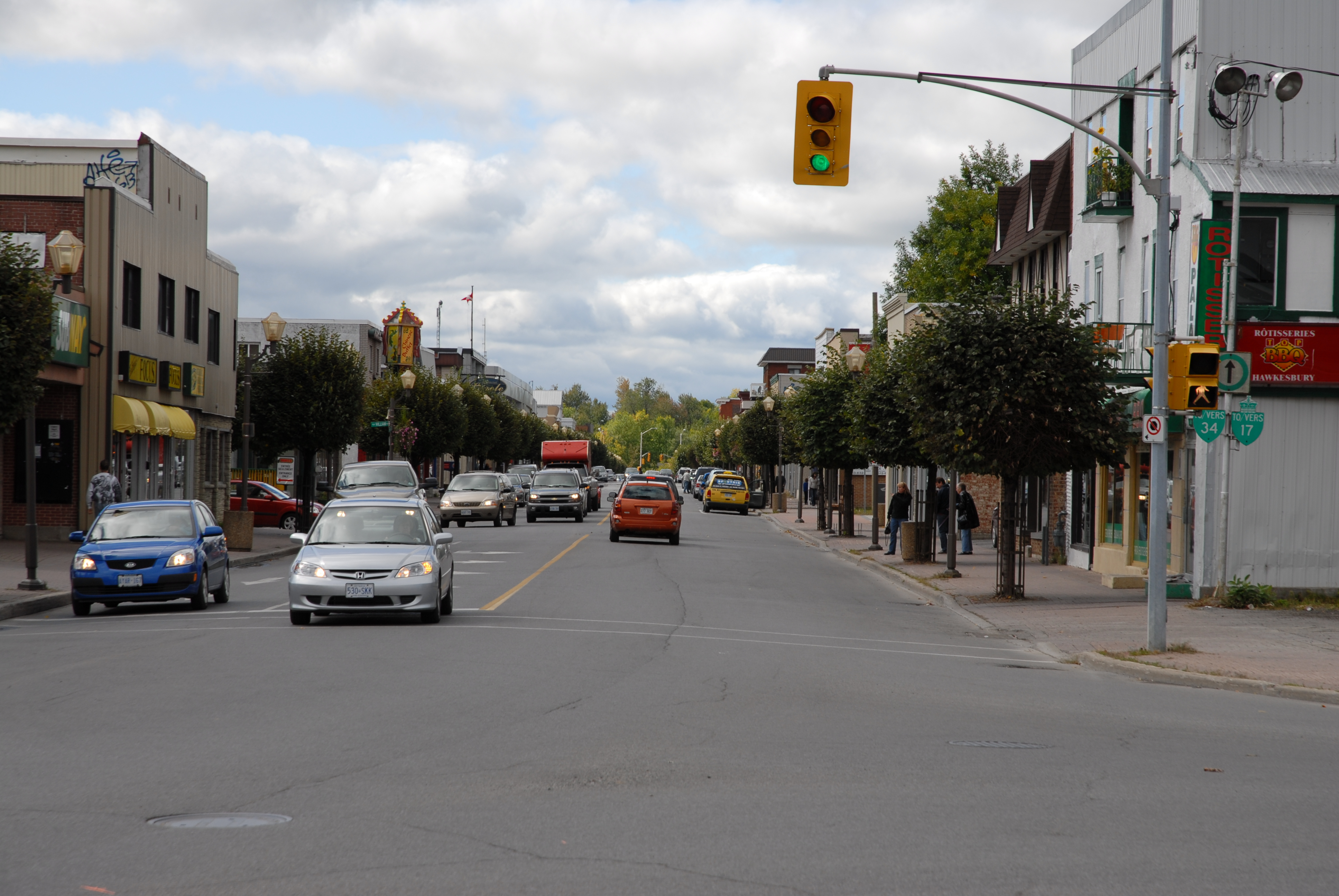 Photo of Main Street, Town of Hawkesbury, Ontario